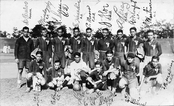 Players of the Philippine national football team that participated at the 1930 Far Eastern Games in Tokyo, Japan including their signatures written on the photograph.